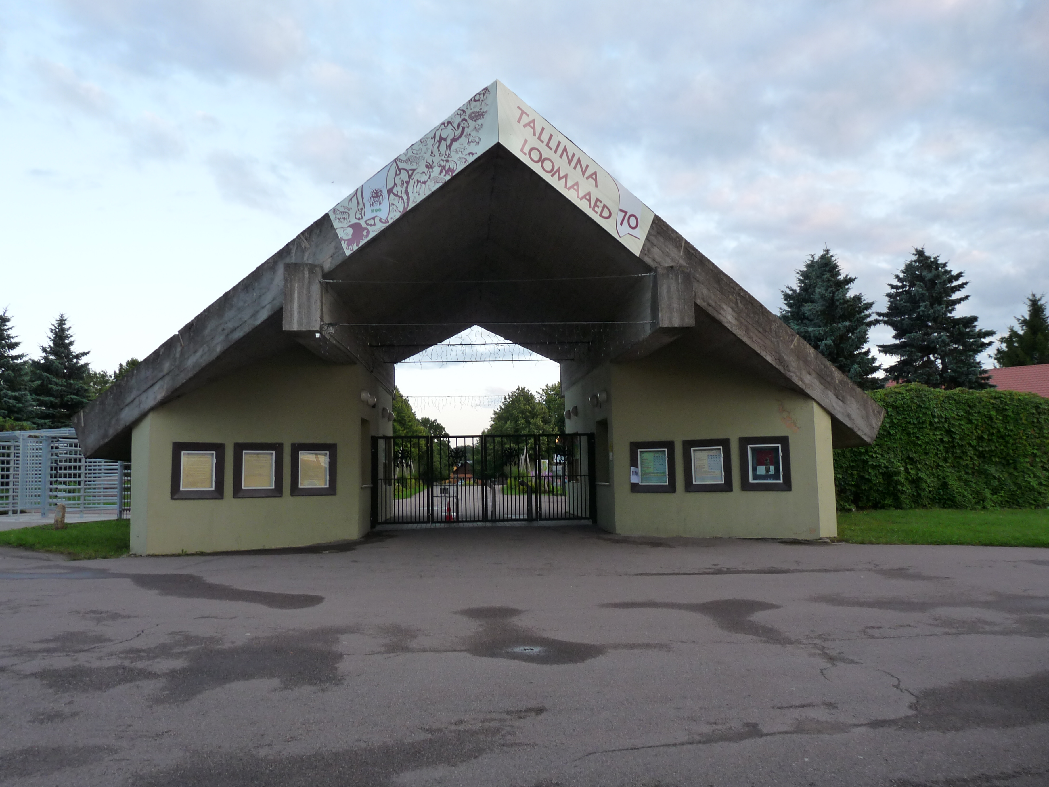 A gate to Tallinn zoo. Don't forget to buy a ticket before pass that gate :)